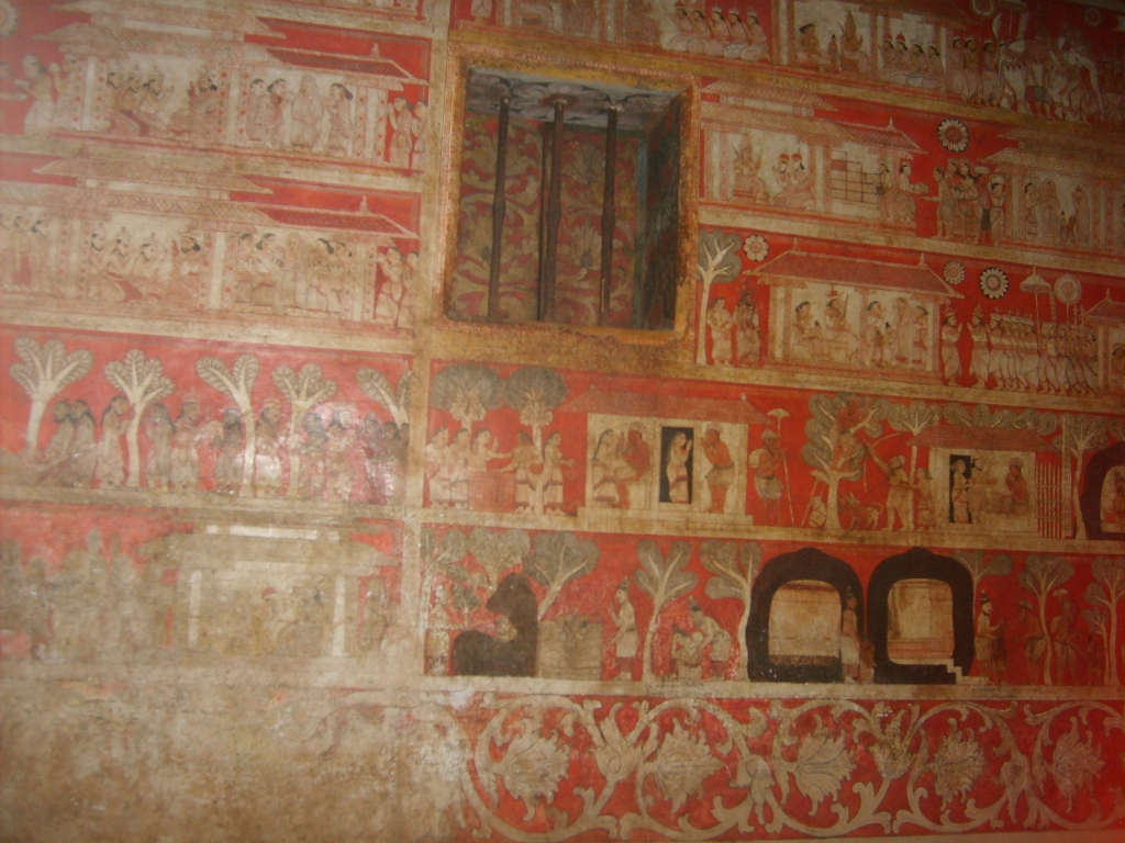 A wall painting from the Degaldoruwa temple depicting the "Wessanthara" Jataka story.